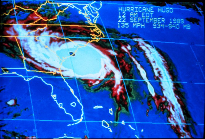 Hurricane Hugo making landfall near Charleston, South Carolina on September 22, 1989.